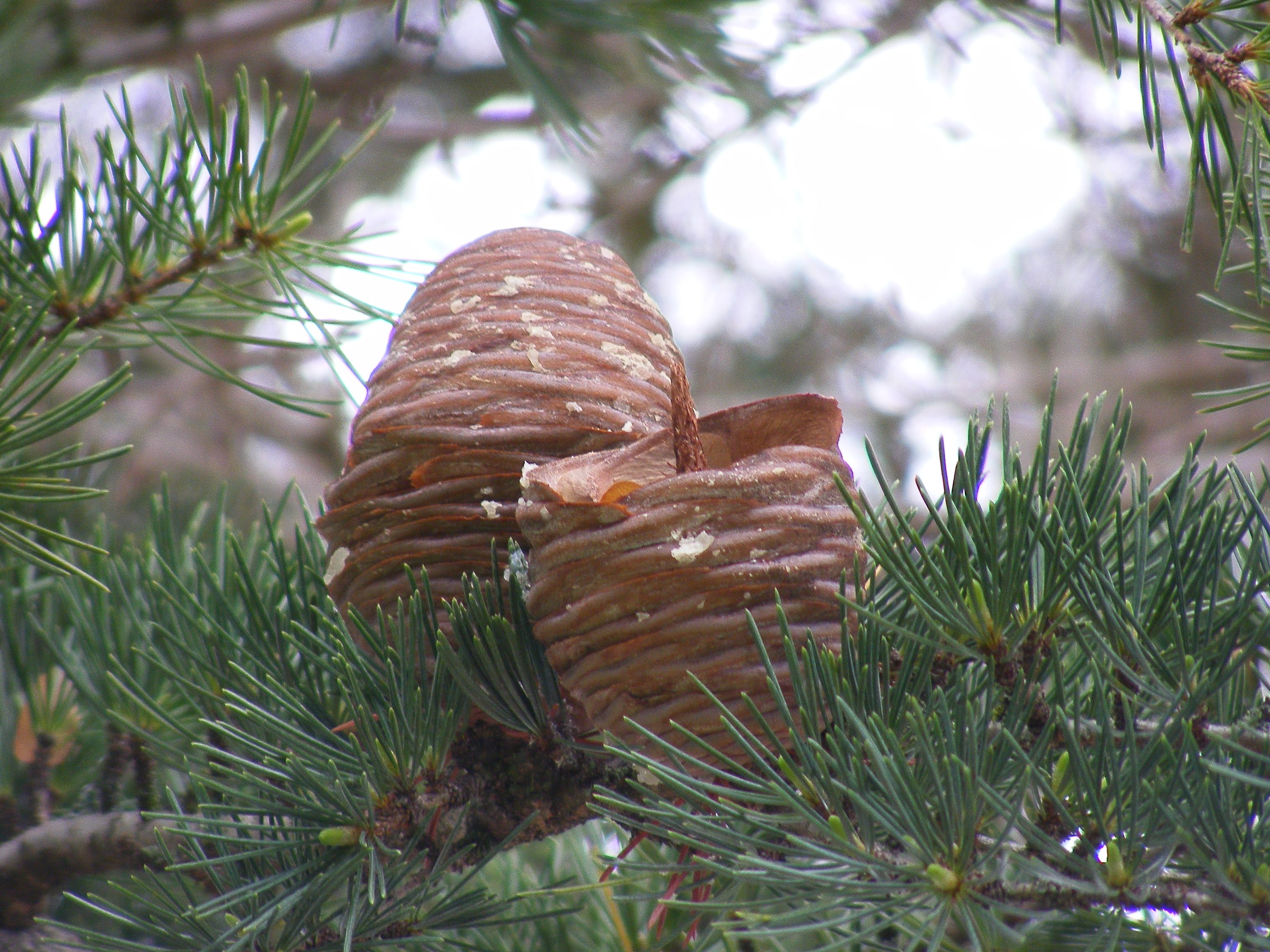 Two cedar cones -- one intact, the other one half intact.